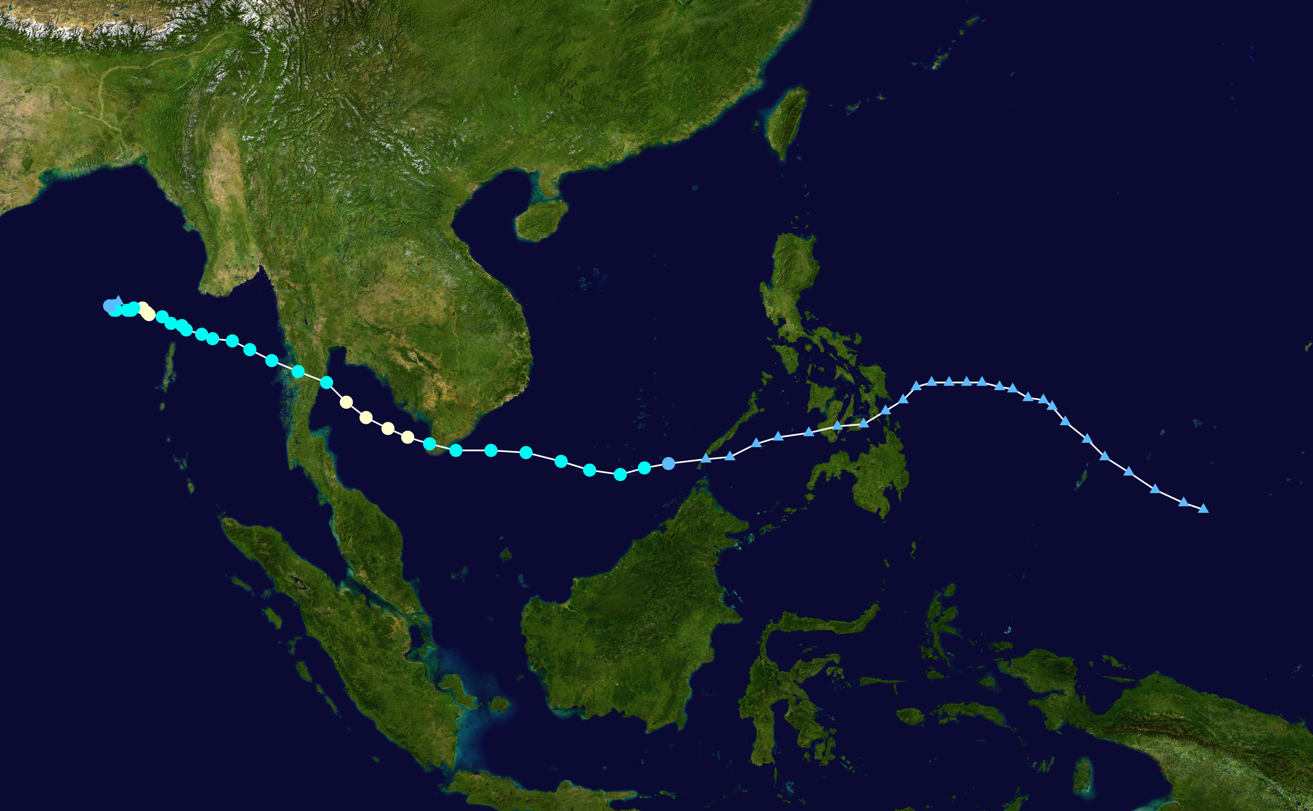 Typhoon Linda Pacific 1997 track. Uses the color scheme from the Saffir-Simpson Hurricane Scale.